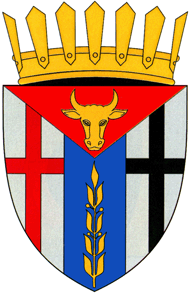 CoA of Mingir